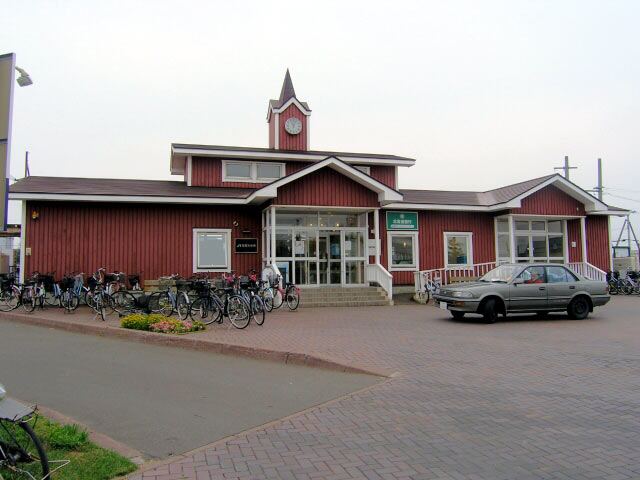 Ishikari-Futomi Station in Sasshou Line, Japan